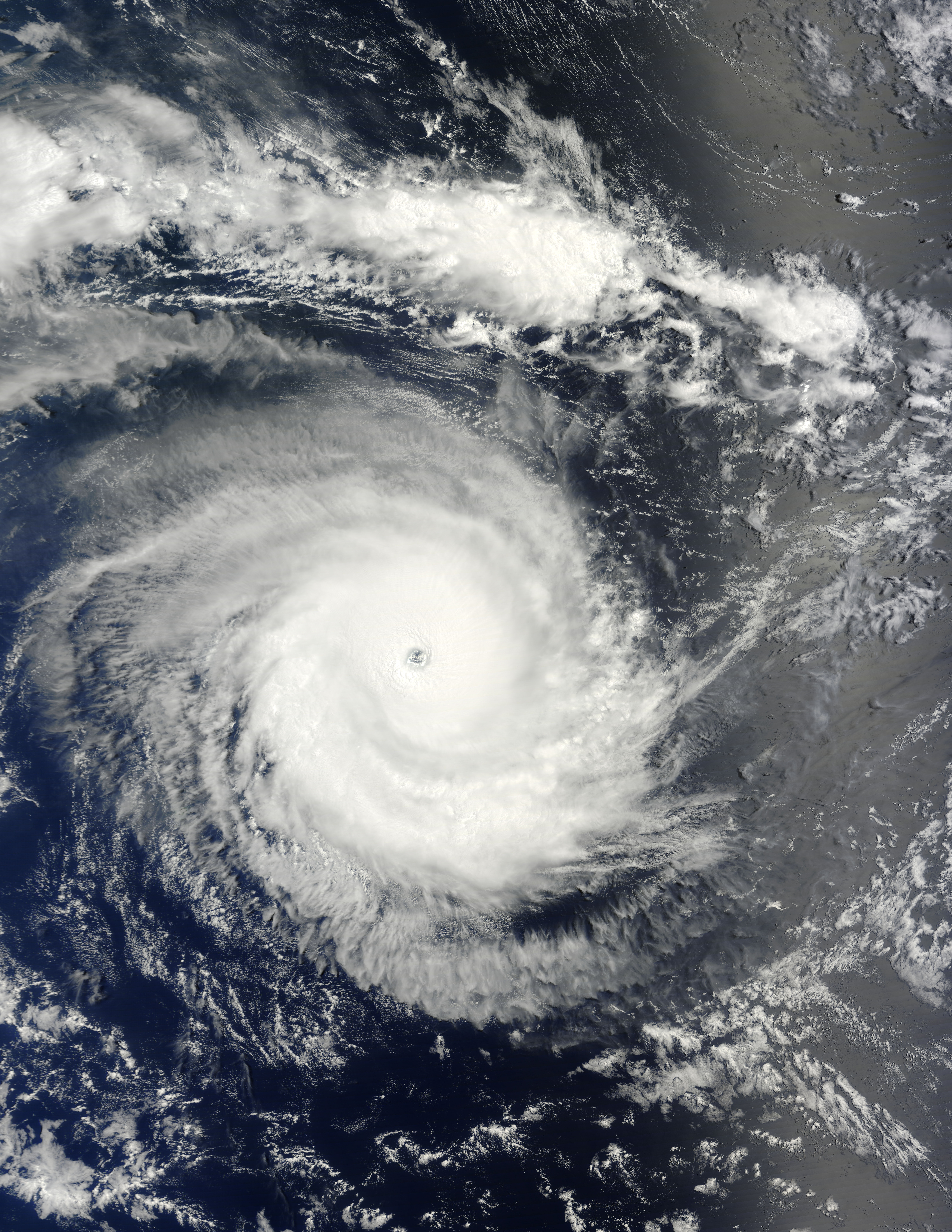 Very Intense Tropical Cyclone Eunice at peak intensity and west-northwest of Rodrigues on 30 January 2015.